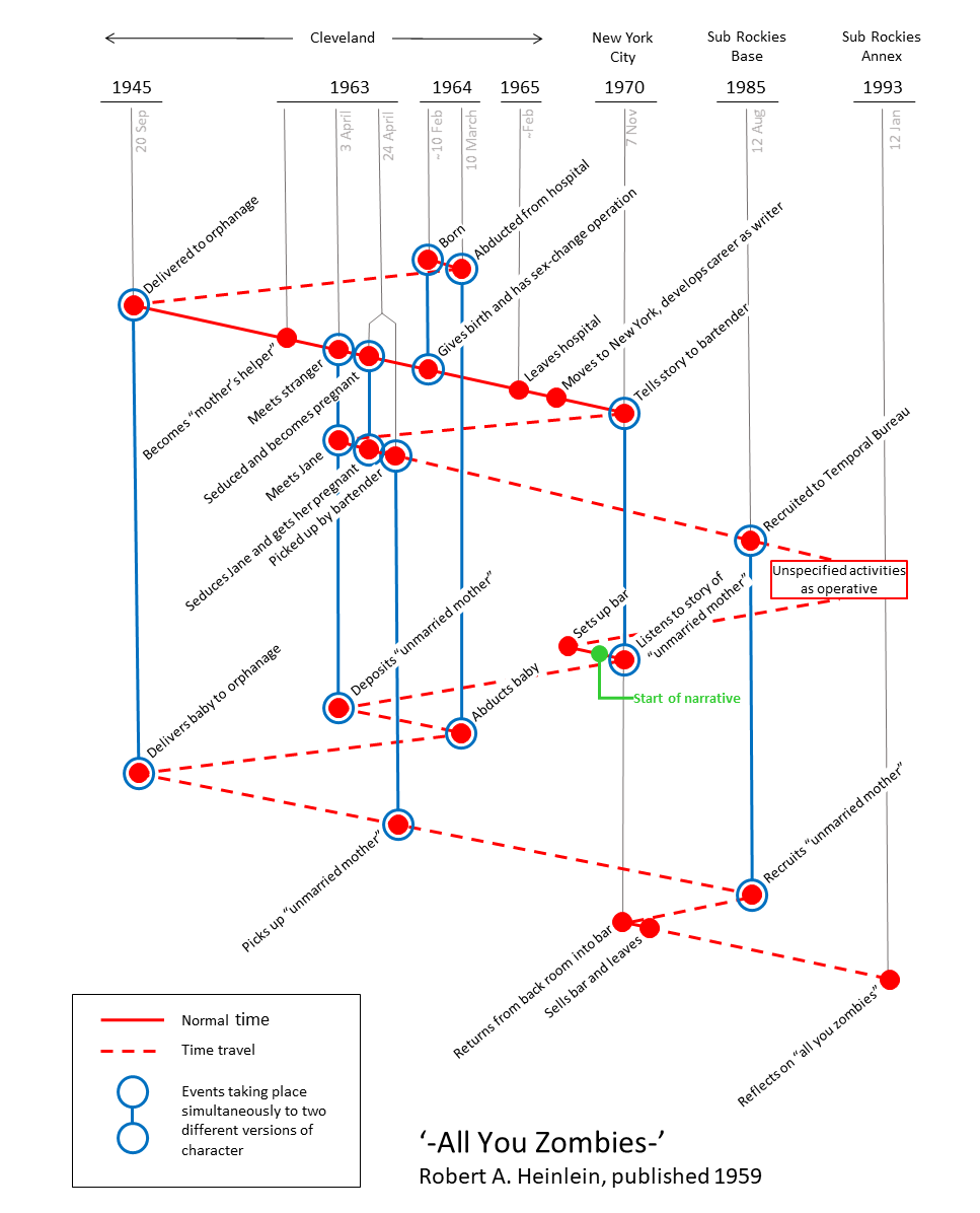 Diagram showing timeline of plot of Robert A. Heinlein short story '-All You Zombies-', showing which sections the character lives in real time and which are time travel, and the places where the same events happen to the character at two different points on the timeline.